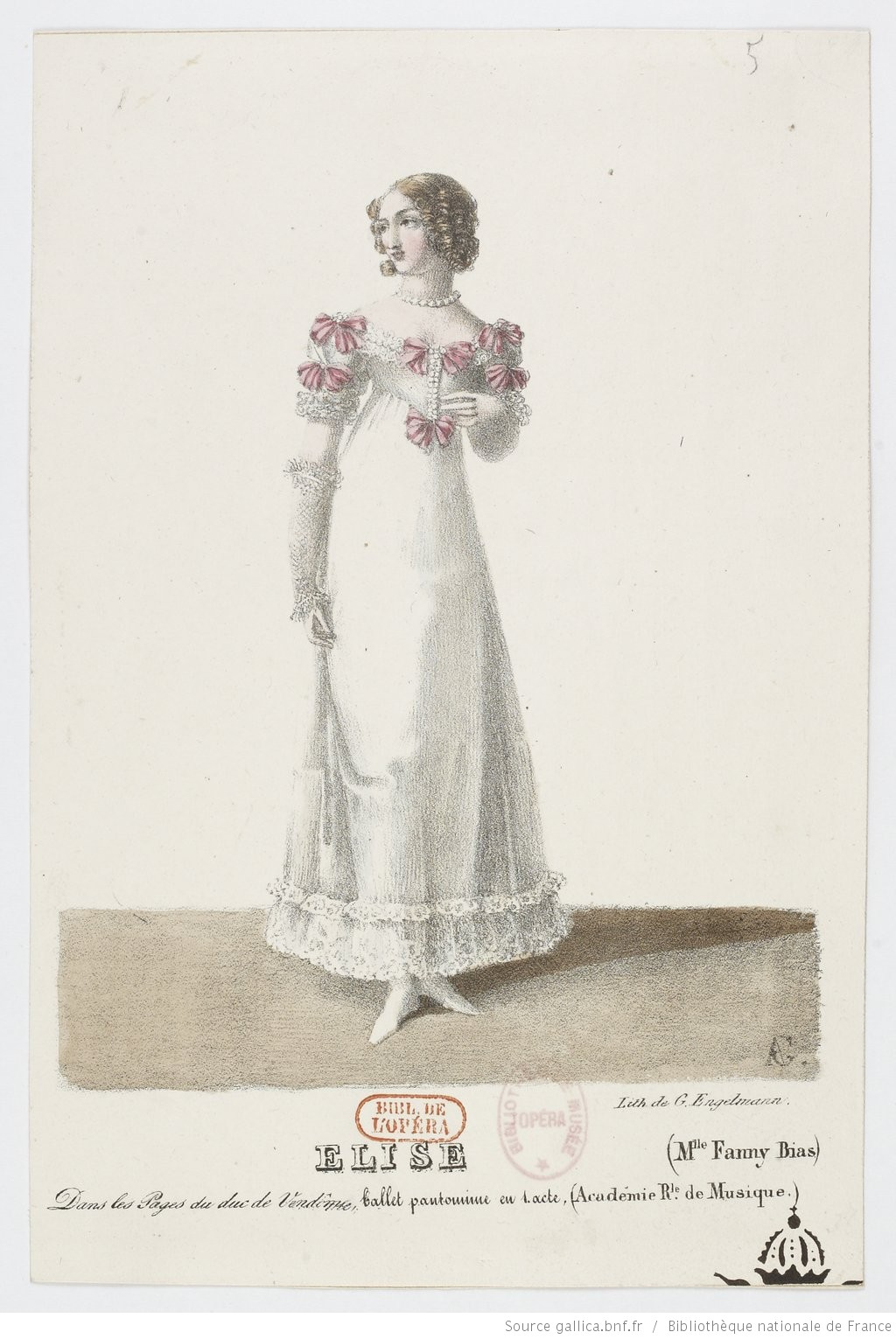 1820 lithograph by Godefroy Engelmann